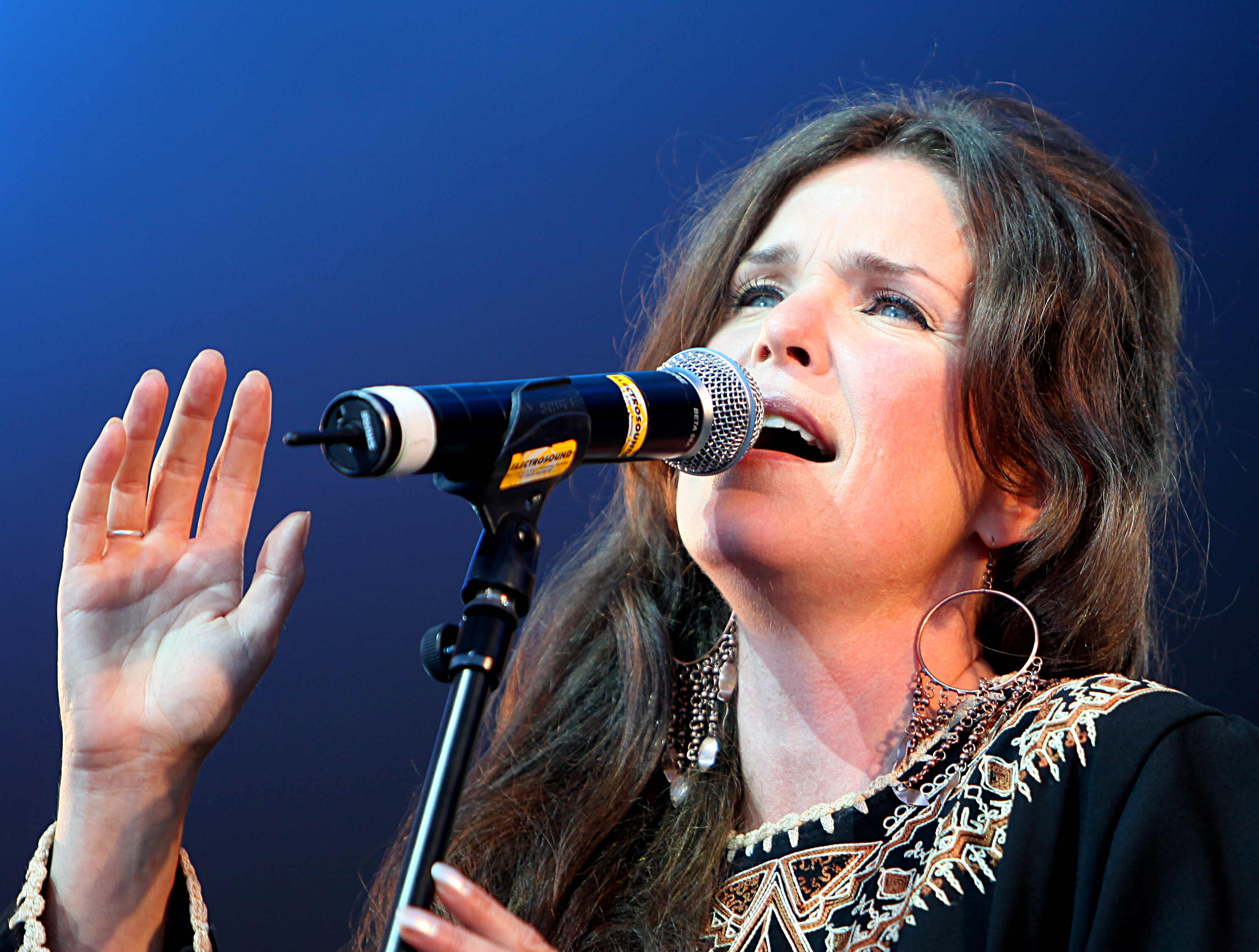 Swedish musician Rebecka Törnqvist. Photo taken during Stockholm Pride 2009.